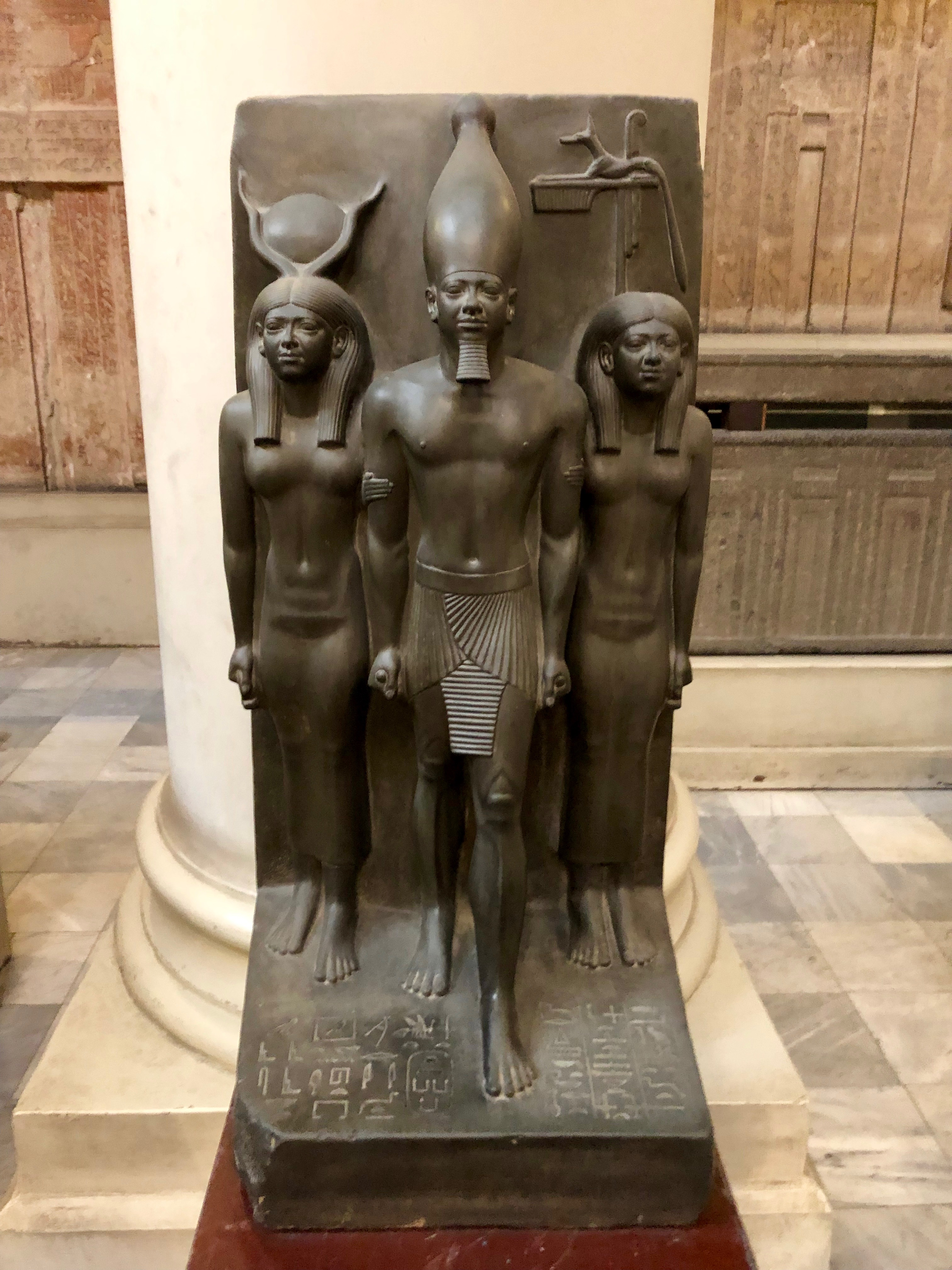 Cairo (al-Qahira), capital of Egypt